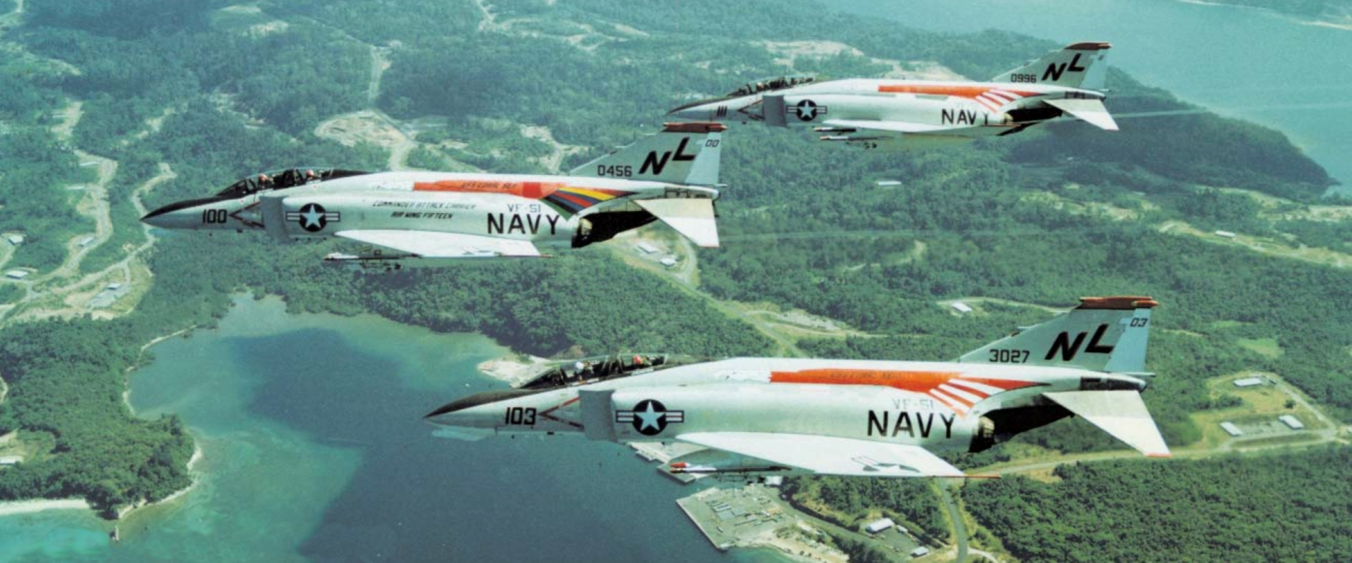 Three U.S. Navy McDonnell F-4B Phantom II (BuNos 150456, 150996, 153027) from the Fighter Squadron 51 (VF-51) "Screaming Eagles" fly in formation. VF-51 was assigned to Attack Carrier Air Wing 15 (CVW-15) aboard the aircraft carrier USS Coral Sea (CVA-43) for a deployment to Vietnam from 12 November 1971 to 17 July 1972. 150456 is the colourful aircraft of the Commander Attack Carrier Air Wing 15. This aircraft was later converted to a F-4N and then QF-4N drone and was expended as target at China Lake, California (USA), on 27 January 1989. 150996 was also converted to a F-4N and retired to the MASDC as 8F0068 on 20 October 1977. 153027 also became an F-4N and was retired as 8F0142 on 17 November 1983.